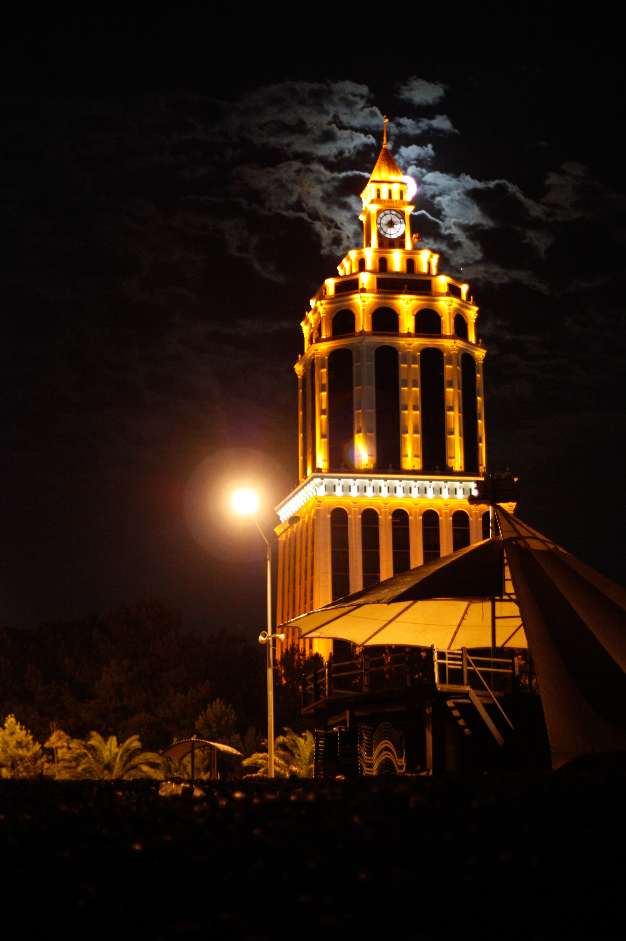 Hotel Sheraton in Batumi, Georgia.